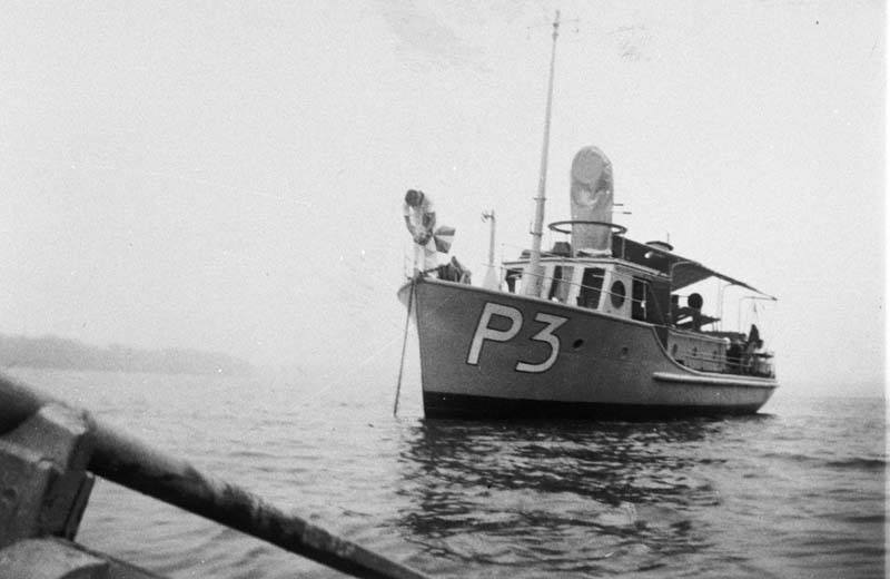 Koninklijke Marine (Royal Netherlands Navy) Patrol Boat P-3 of the P-1 Class. 4 boats of this class were made by the Naval Shipyard in Surabaya in 1939